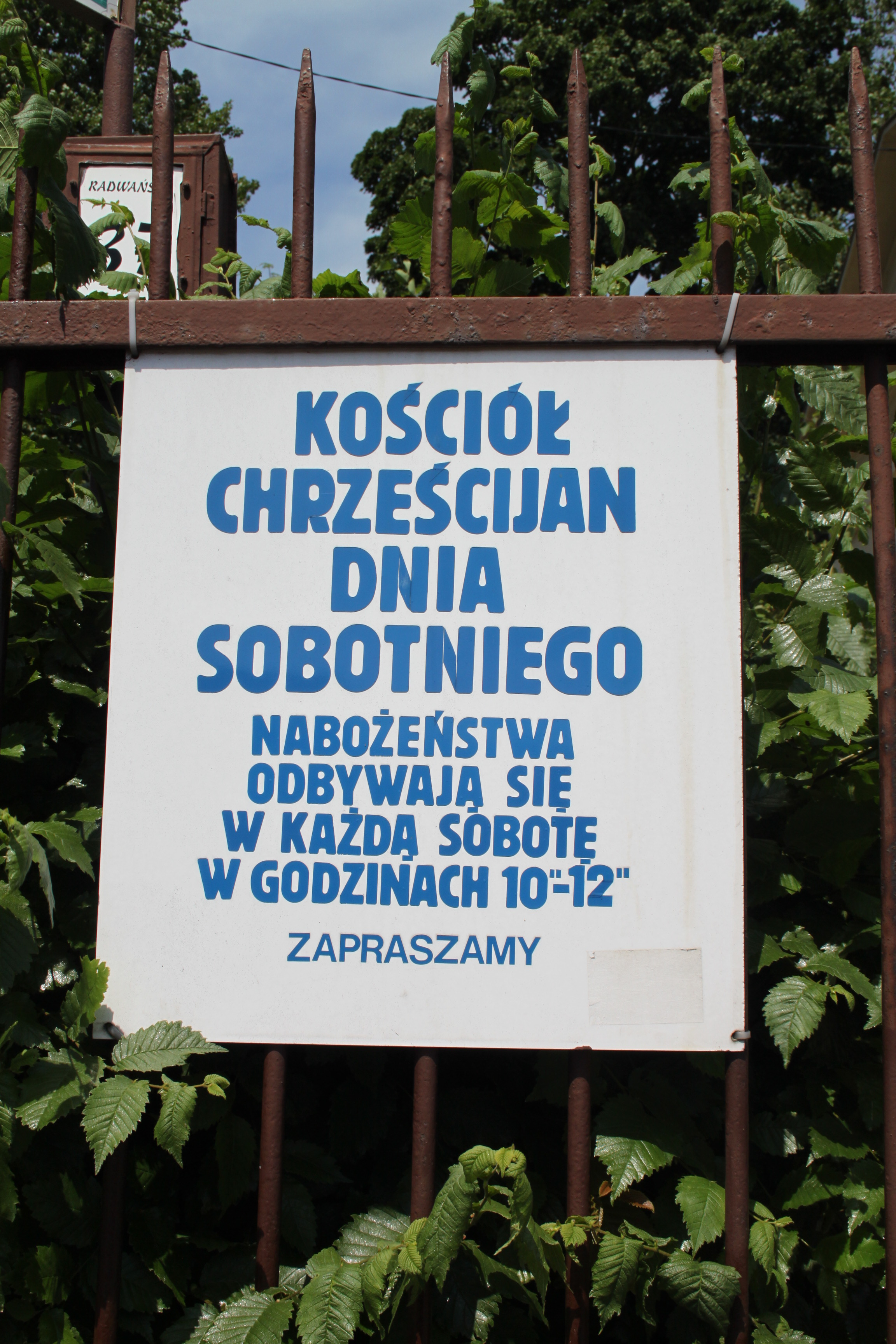 Plate of the Sabbath Day Christian Church on Radwańska St. (May 2018)